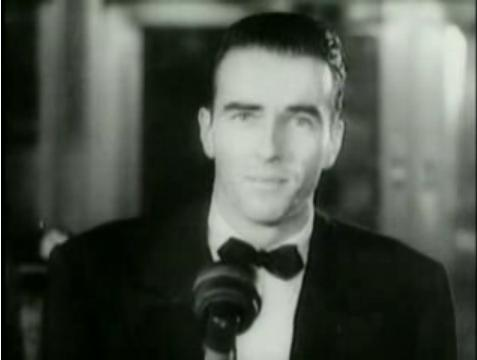 Montgomery Clift from premiere video of A Place in the Sun (1951)